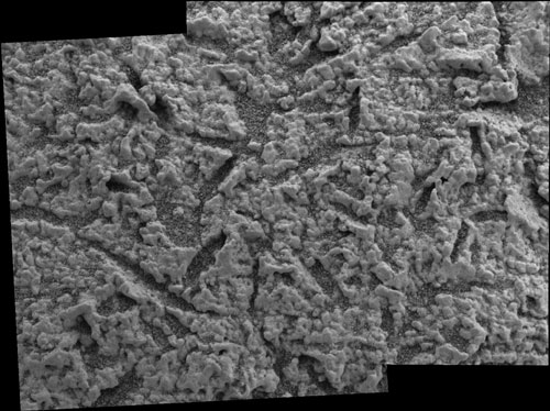 Voids on bedrock on Mars. Picture taken by Opportunity (JPL/NASA/Cornell/USGS)